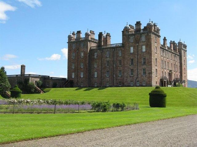 Drumlanrig Castle From the south west, one of the seats of the Duke of Buccleuch and Queensbury.